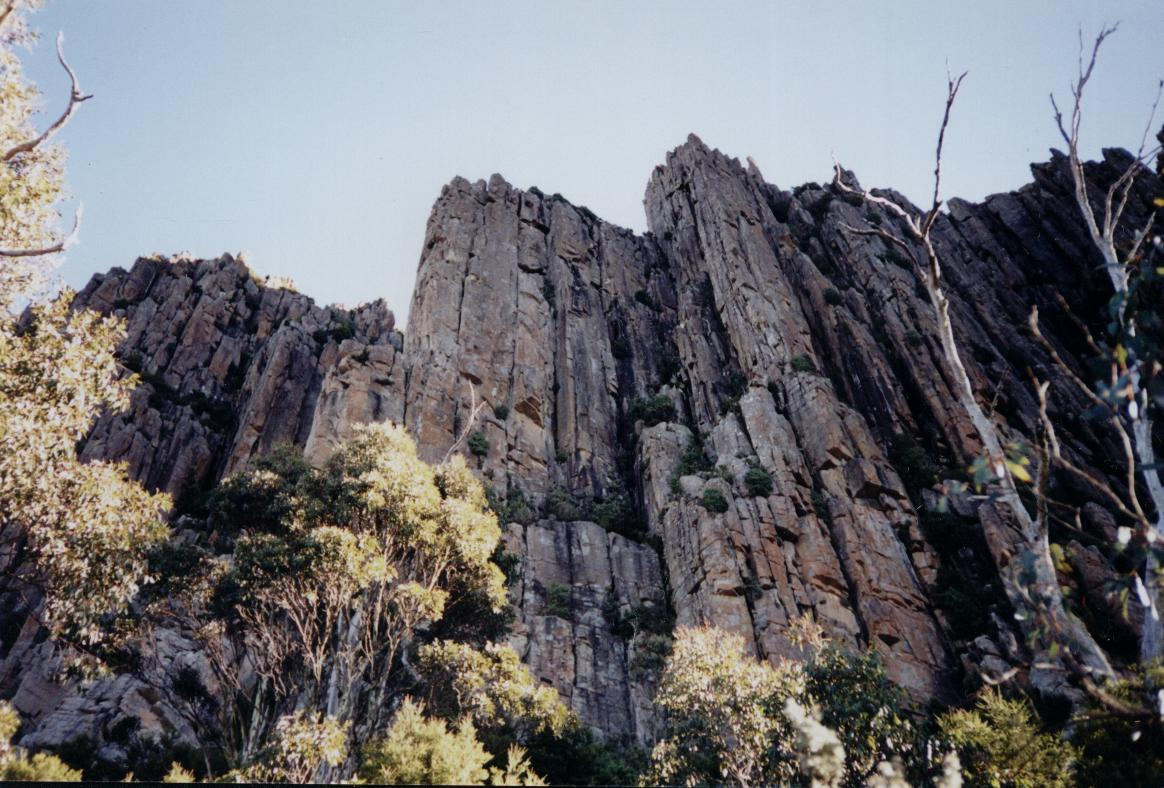 Organ Pipes - rocks of Mount Wellington near Hobart, Tasmania